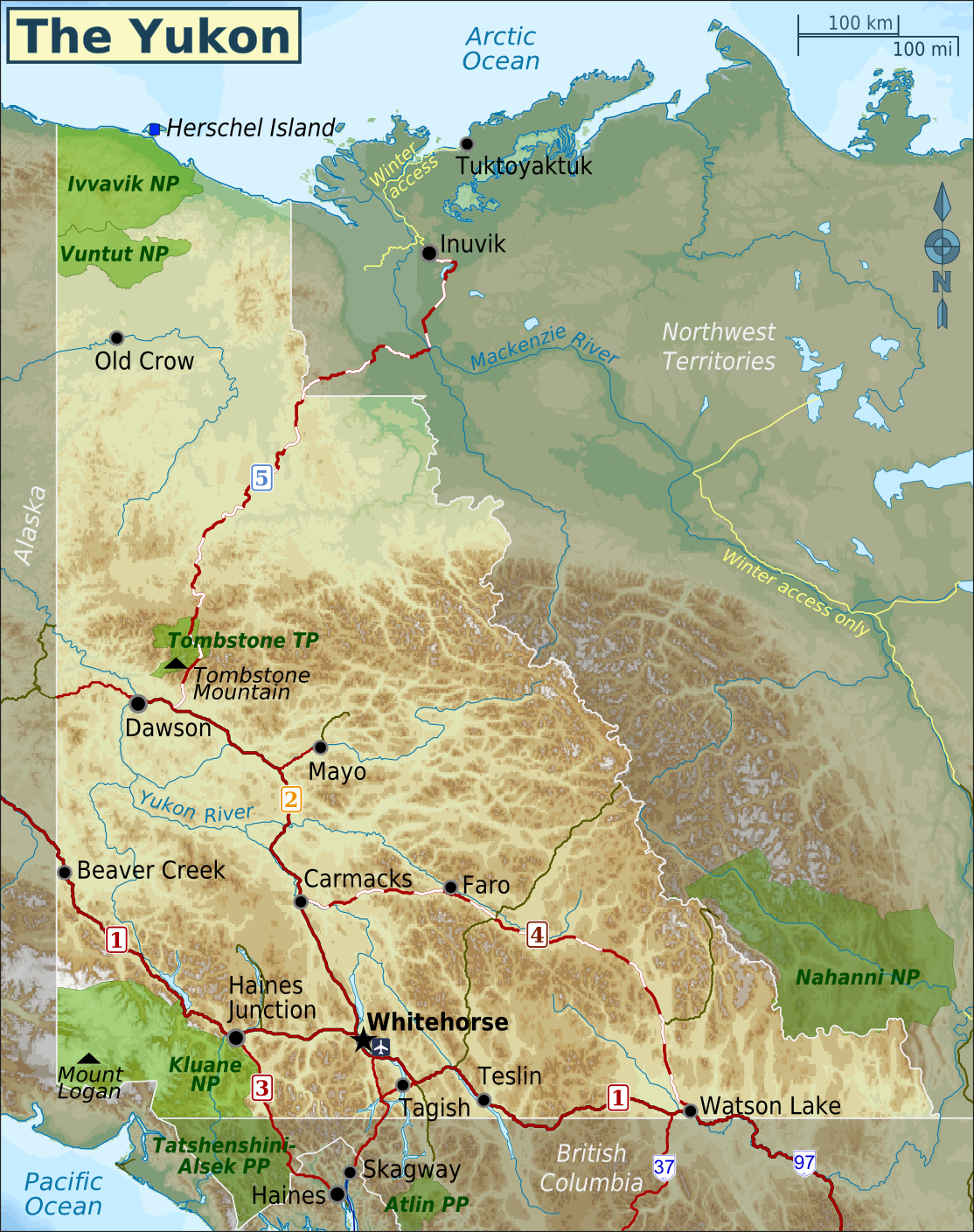 Map of the Yukon. Map is equirectangular projection, N/S stretching 200%. Geographic limits of the map: N 70.853 E 123.2 S 58.887 W 142.096 Source data for map: Topography and bathymetry: ETOPO1 Borders, roads, rivers and lakes: Natural Earth Parks: Gov't of Canada, Gov't of BC and Yukon Territory Gov't Location of points of interest: GeoBase Note: ETOPO1 and Natural Earth are in the public domain. Data from BC and the Yukon are available under the Open Government Licence. Data from GeoBase and the Government of Canada are available under an Unrestricted Use Licence. Details of each licence are available on the organization's website., Yukon Territory Map of: Yukon Territory¤.